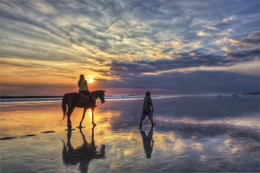 Girl riding a horse at sunset on Kuta Beach in Bali